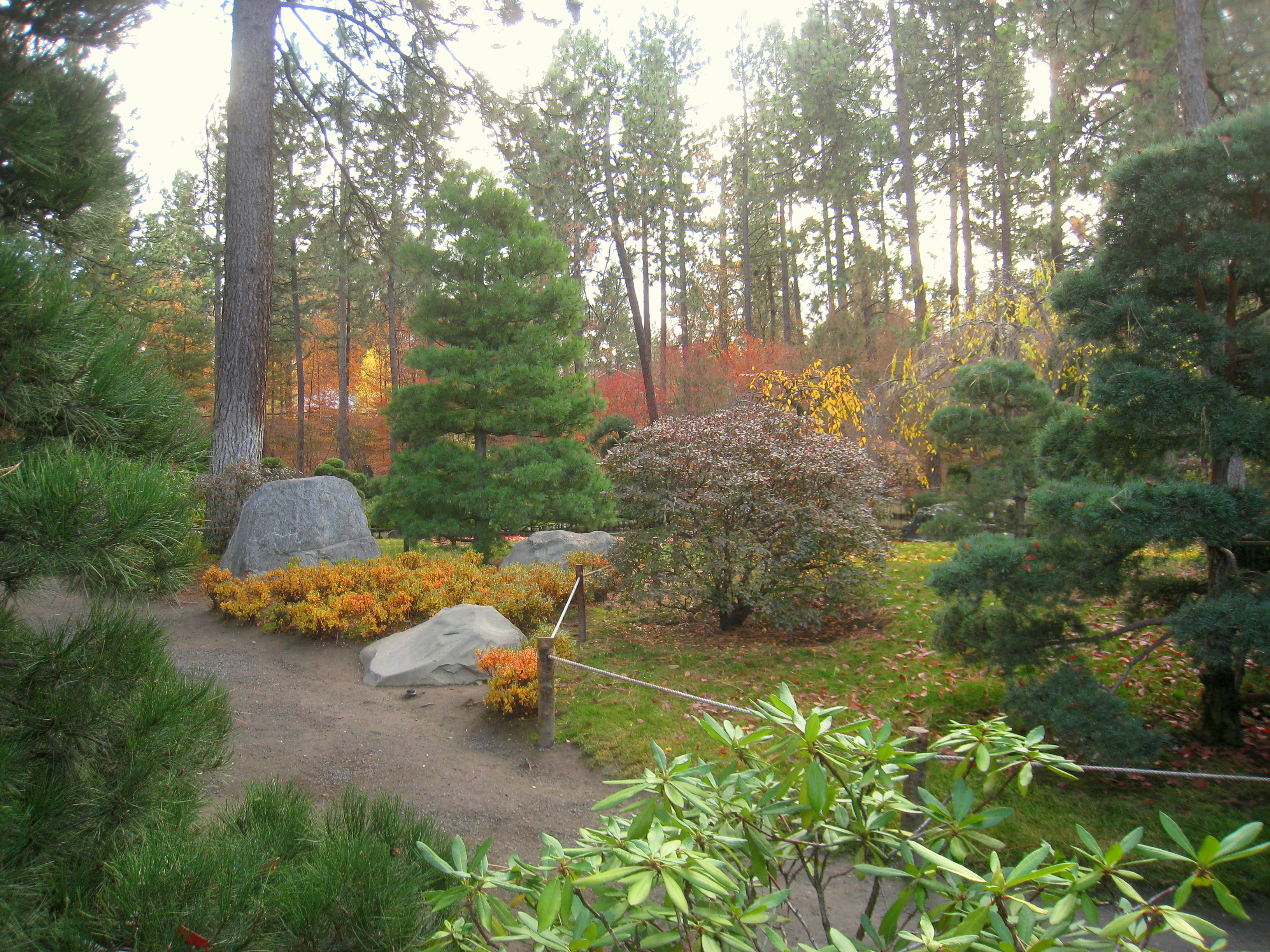 Nishinomiya Japanese Garden, Manito Park, Spokane, Washington, USA.